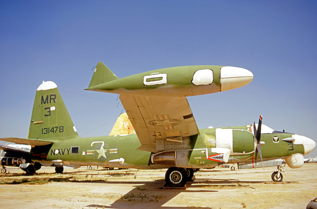 Lockheed OP-2E Neptune of V-67 Observation Squadron at Davis Monthan AFB in 1971